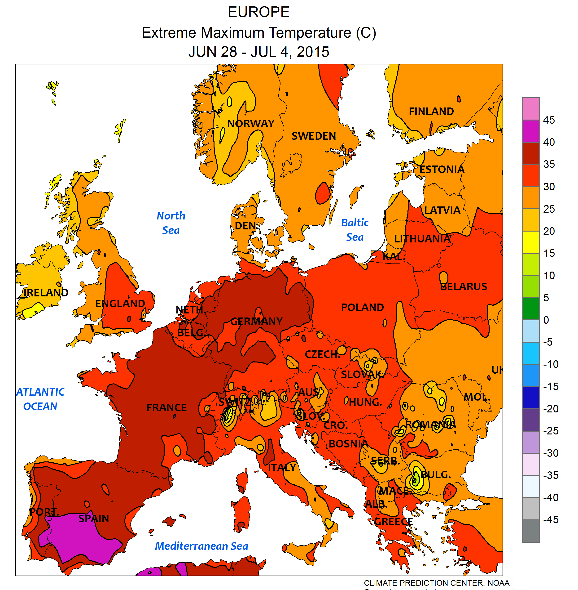 Europe: Extreme maximum temperature June 28 - July 4, 2015, computer generated colours, based on preliminary data